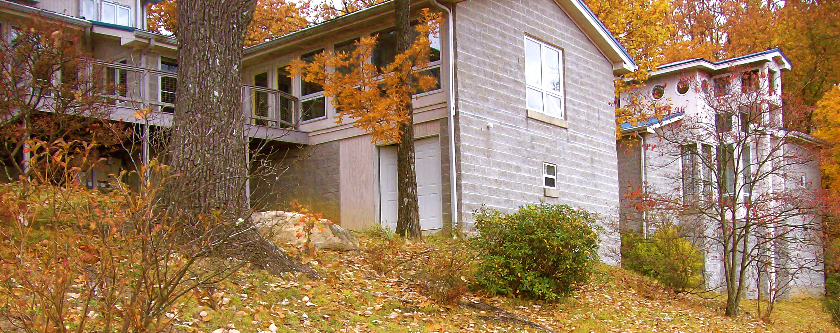 St. Mary's Convent, of the Community of St. Mary's Southern Province. Located near Sewanee, Tennessee (USA) on the edge of the Cumberland Plateau